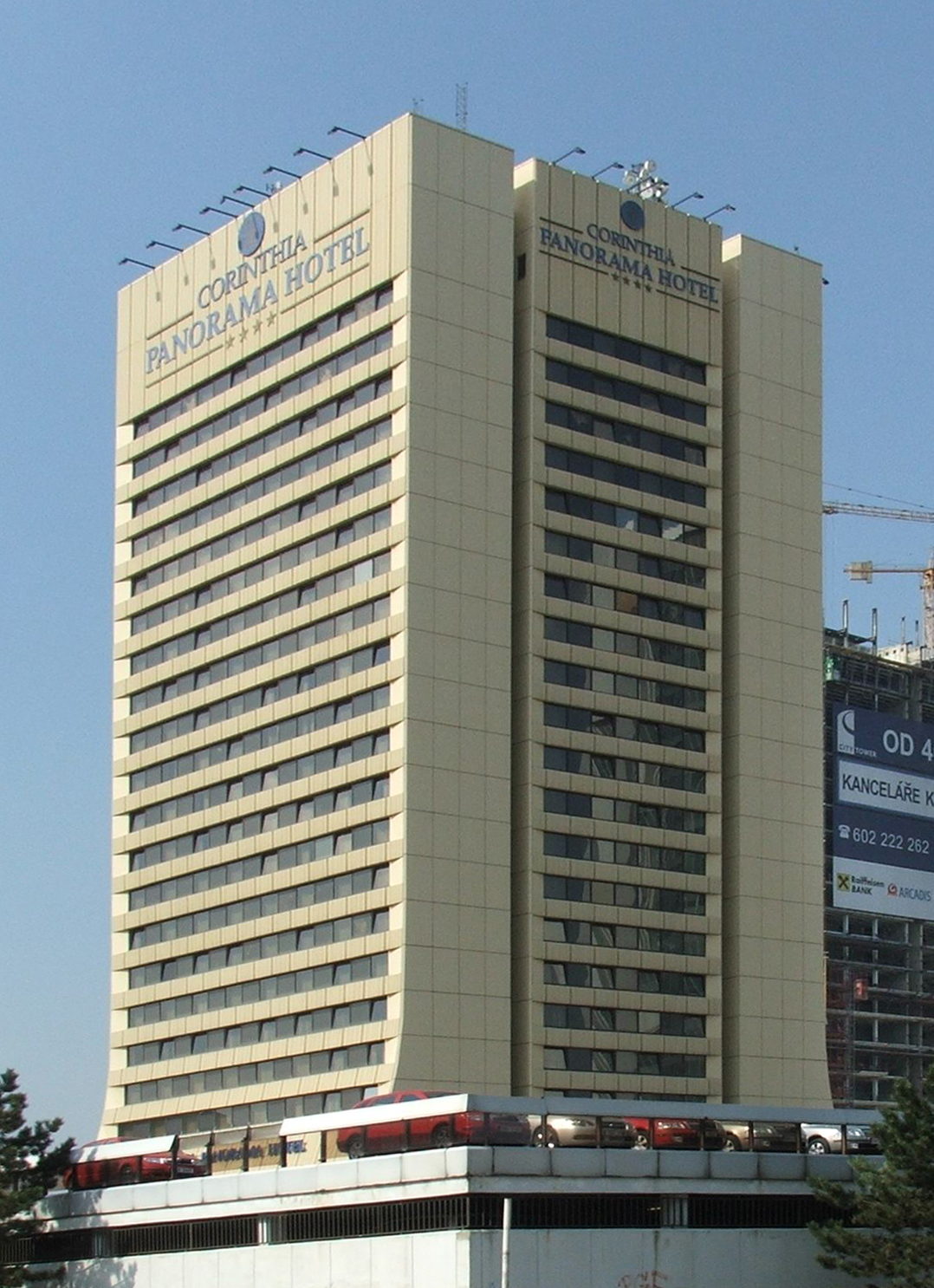 Hotel Corinthia Panorama in Prague - Pankrác, Czechia